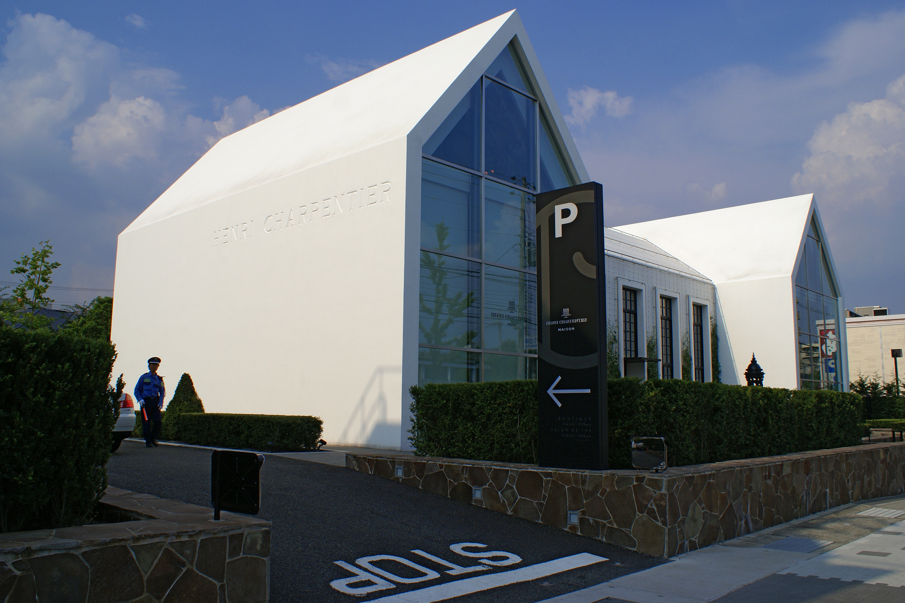 Maison Henri Charpentier in Ashiya, Hyogo, Japan